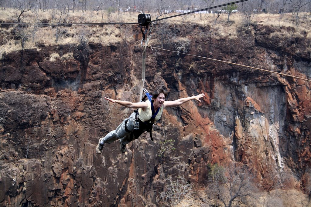 Tourist attraktion over the Zambezi river between Zambia and Zimbabwe